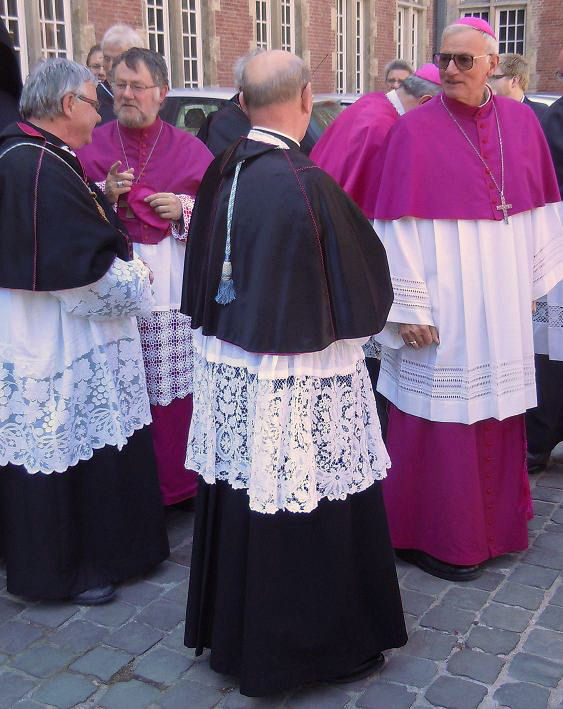 Mgr. Kockerols (with beard), Frans Daneels, Heilig Bloedprocessie 2011, Bruges